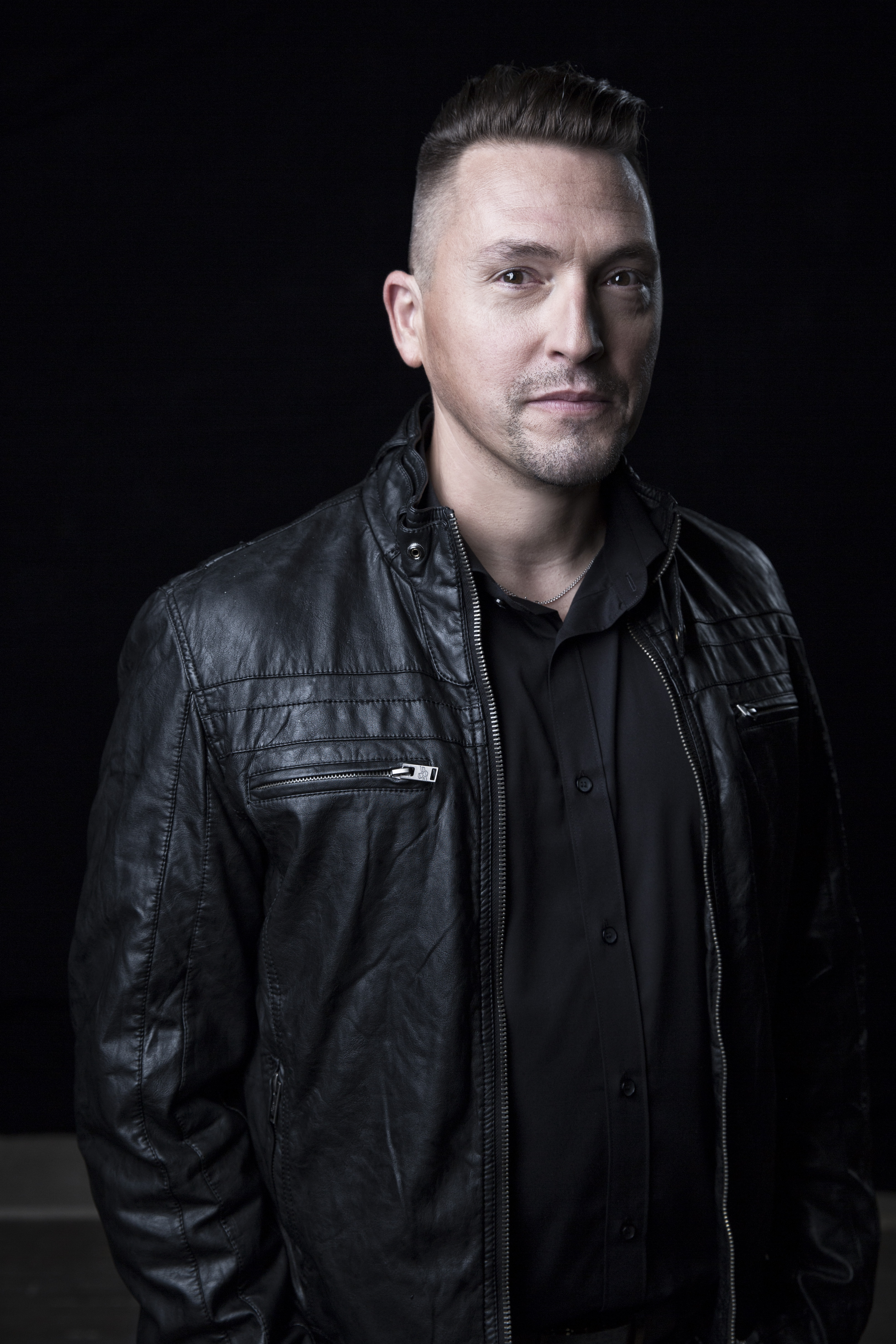 Ákos Kovács - 2015